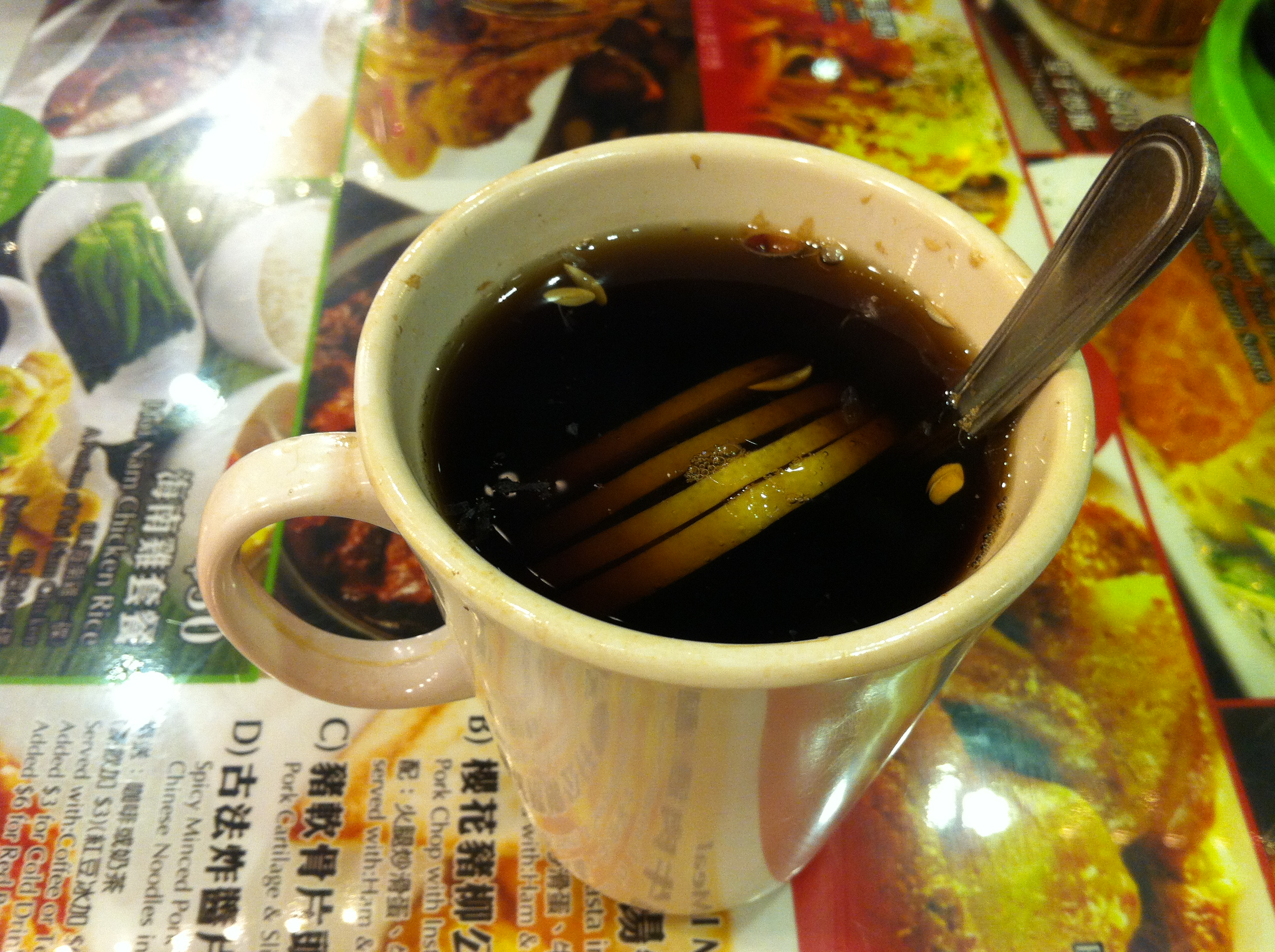 Hot Lemon Cola